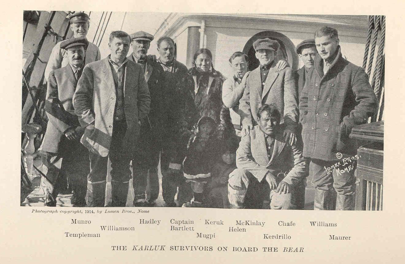 Karluk Survivors on Board the Bear : Munro, Hadley, Captain Bartlett, Keruk, McKinlay, Chafe, Williams, Williamson, Helen, Templeman, Mugpi, Kendrillo, Maurer Subject: Shipwreck victims, Explorers Tag: People